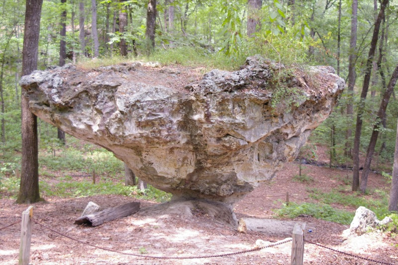 Peachtree Rock, Peachtree Rock Heritage Preserve